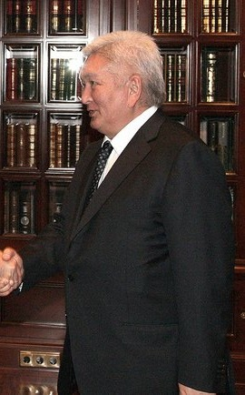 Gorki, Moscow Region. Chairman of Kyrgyzstan’s Ar-Namys (Dignity) party Felix Kulov.